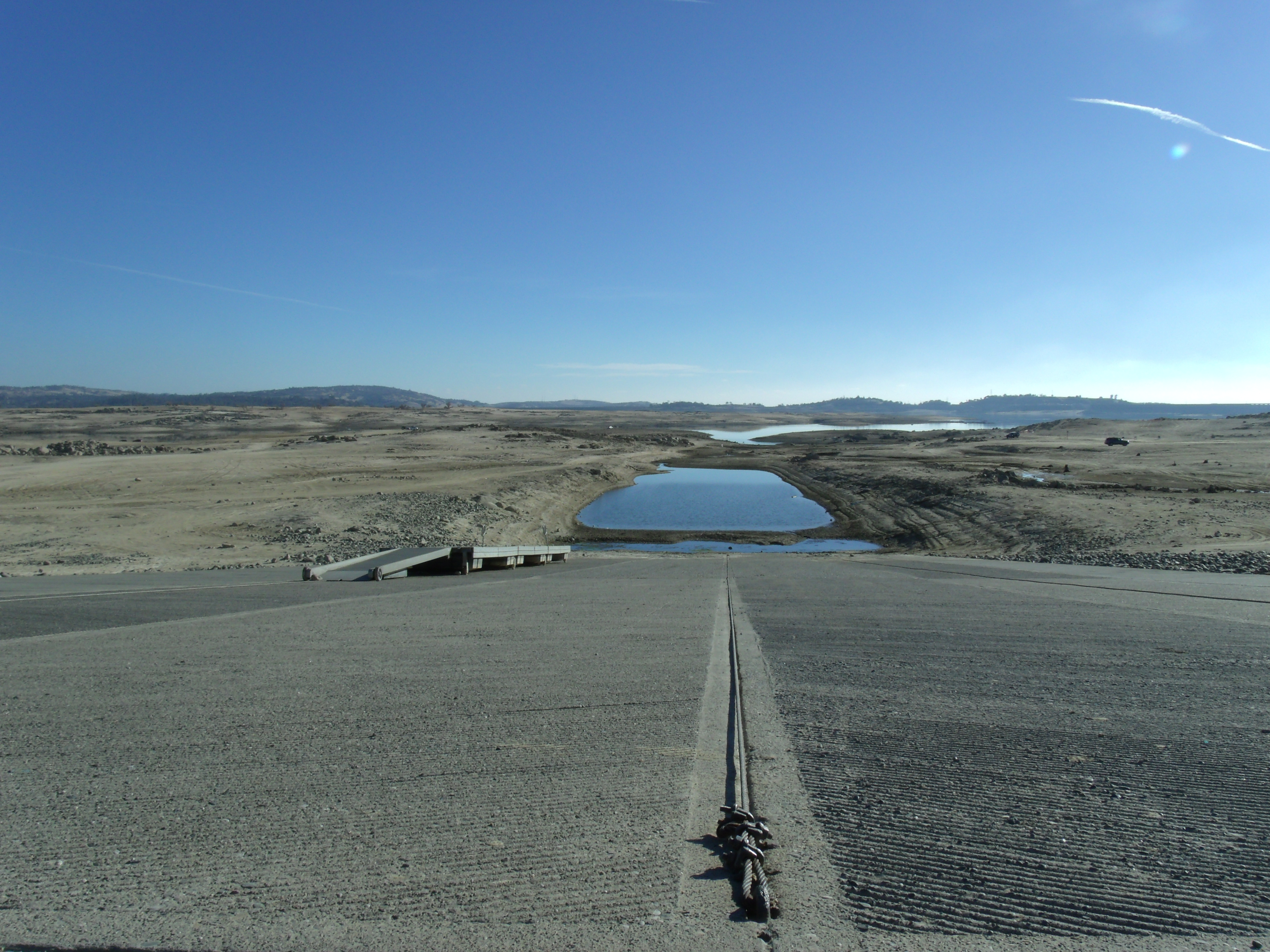 Folsom Lake January 9th 2014